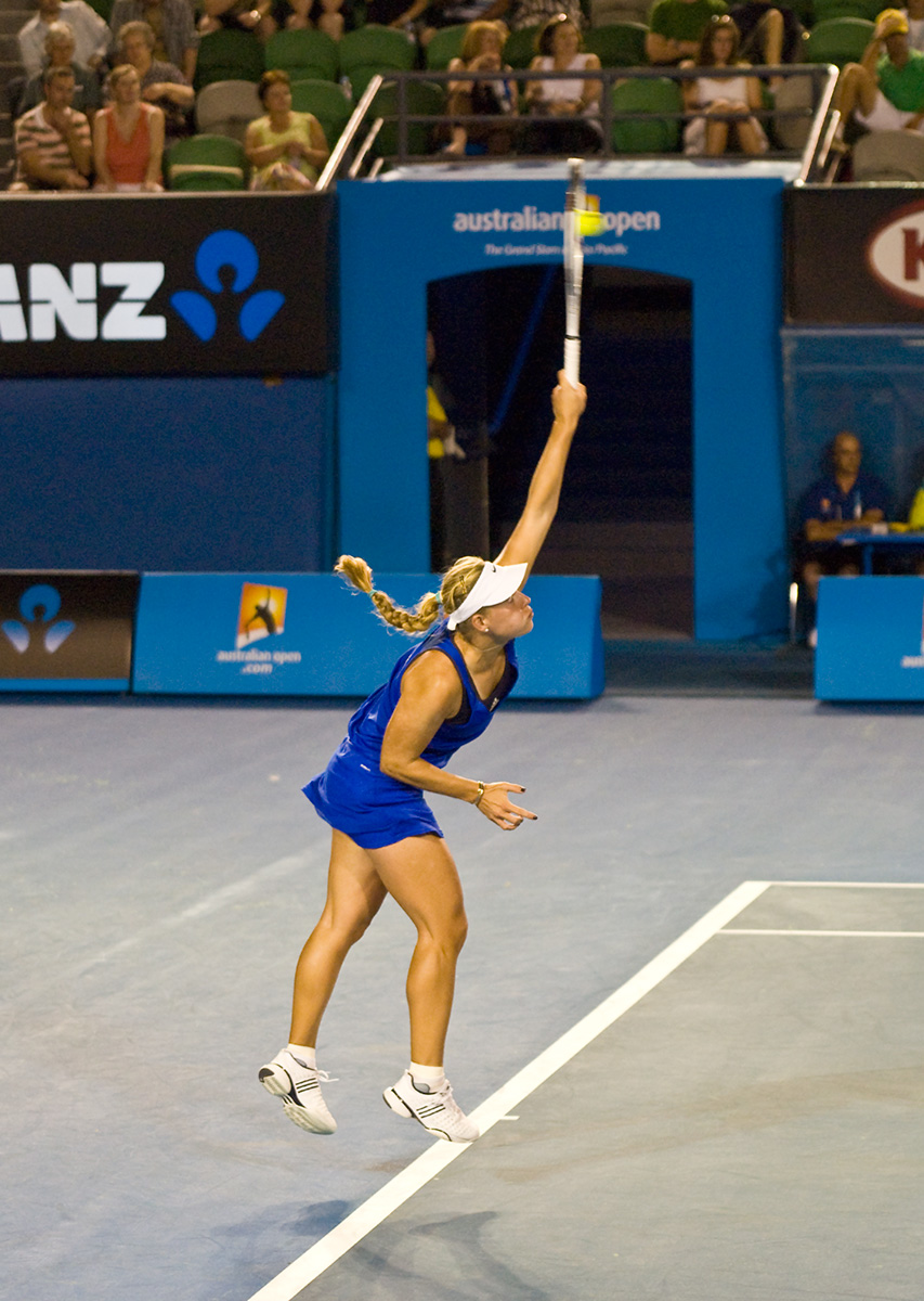 Angelique Kerber at the 2010 Australian Open